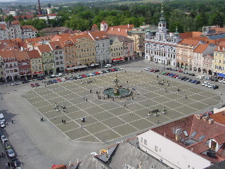 View of namesti Premysla Otakara II from the Black Tower, Ceske Budejovice, Czech Republic.